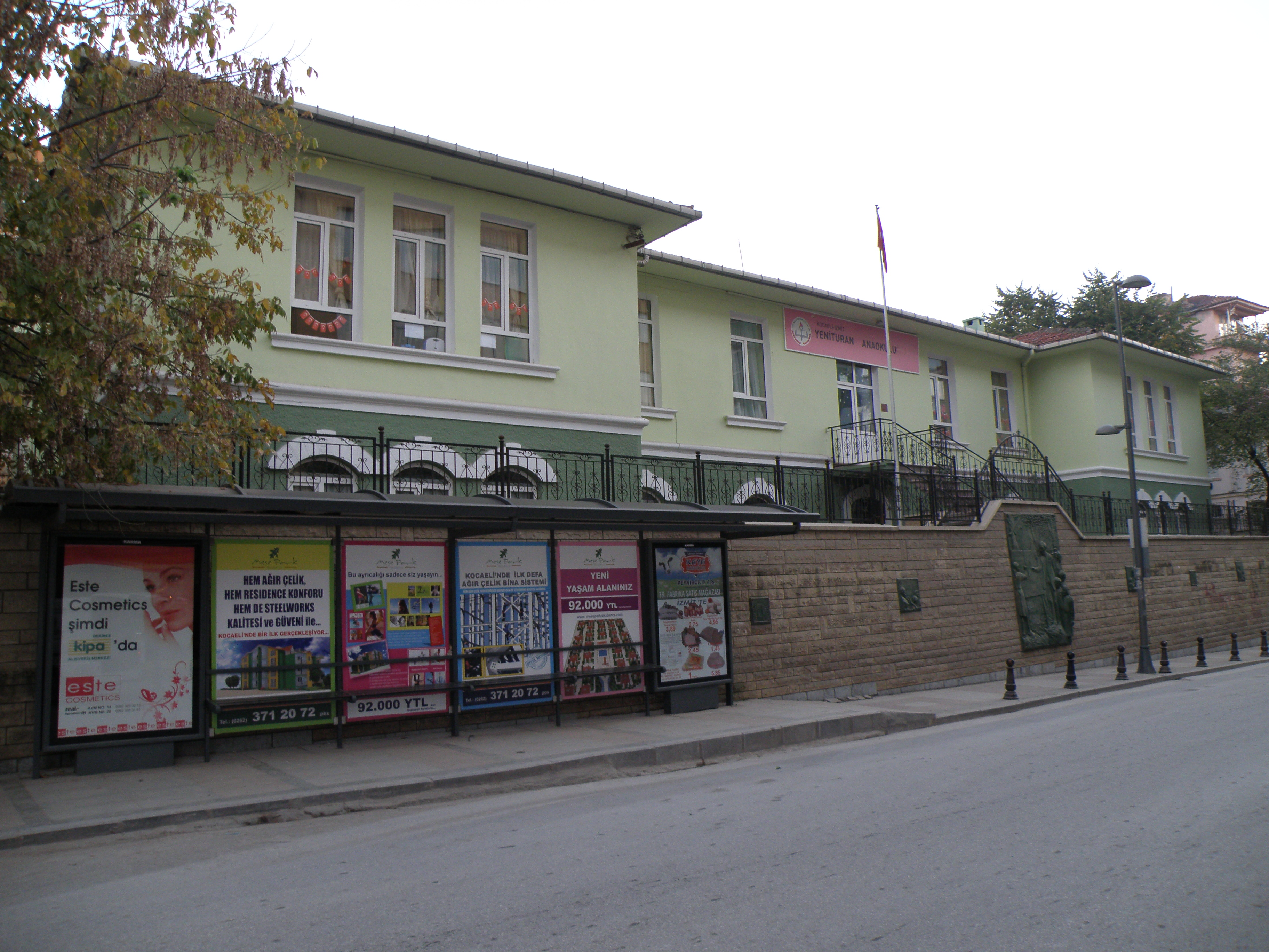 historical school yenituran *©Abdullah Kiyga